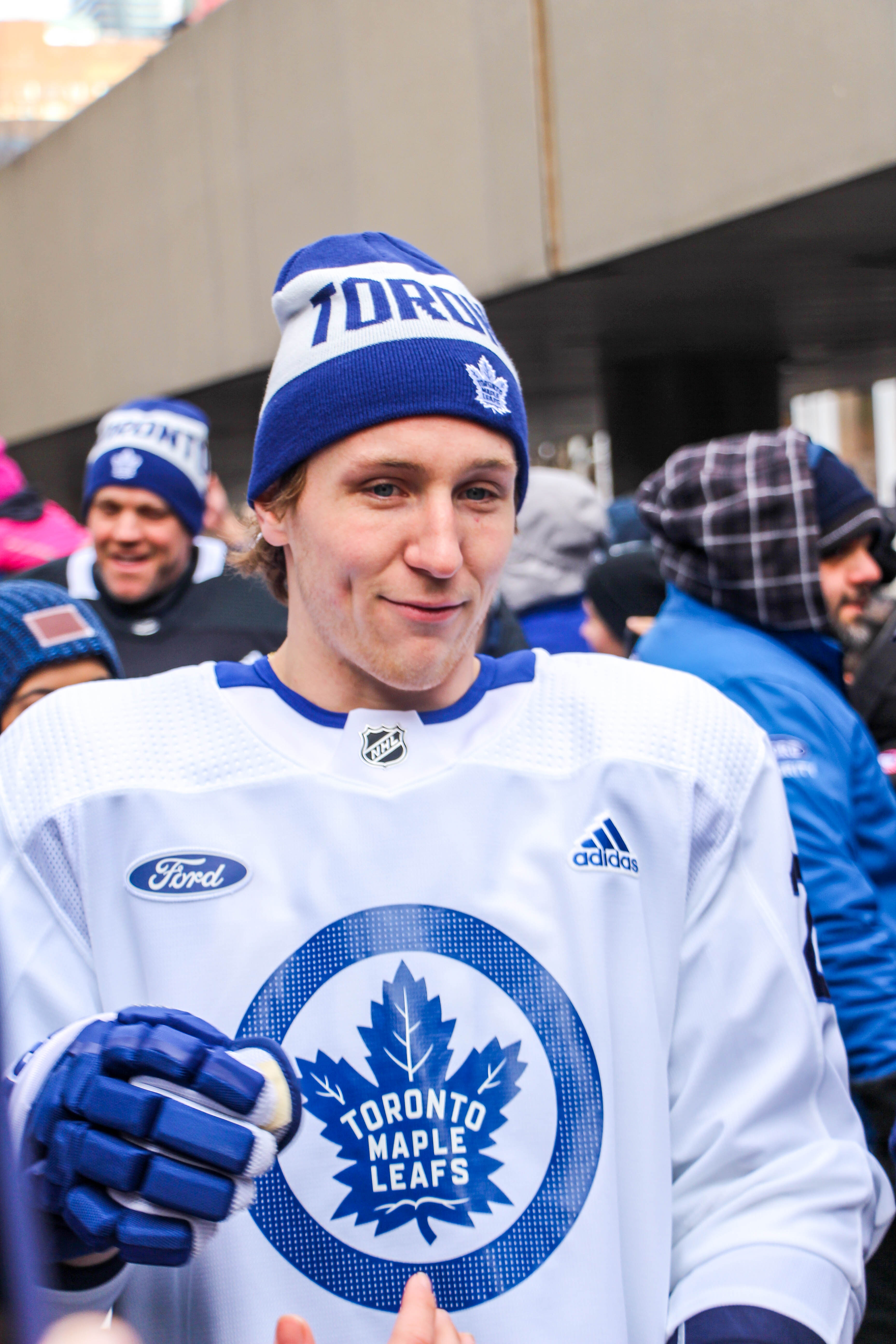 Travis Dermott at the Toronto Maple Leafs outdoor practice.